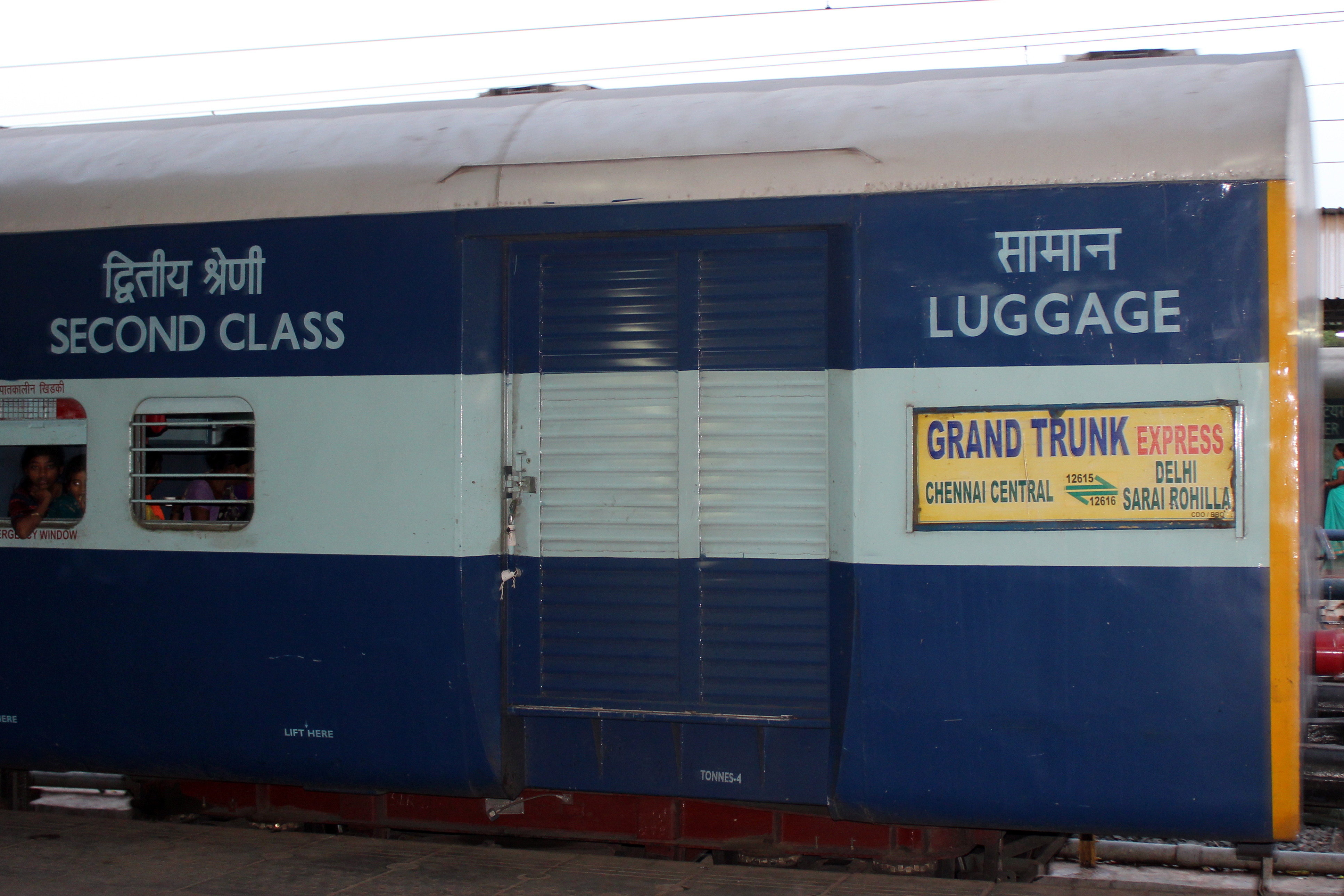 12616 G T Express at Bhopal Railway Station